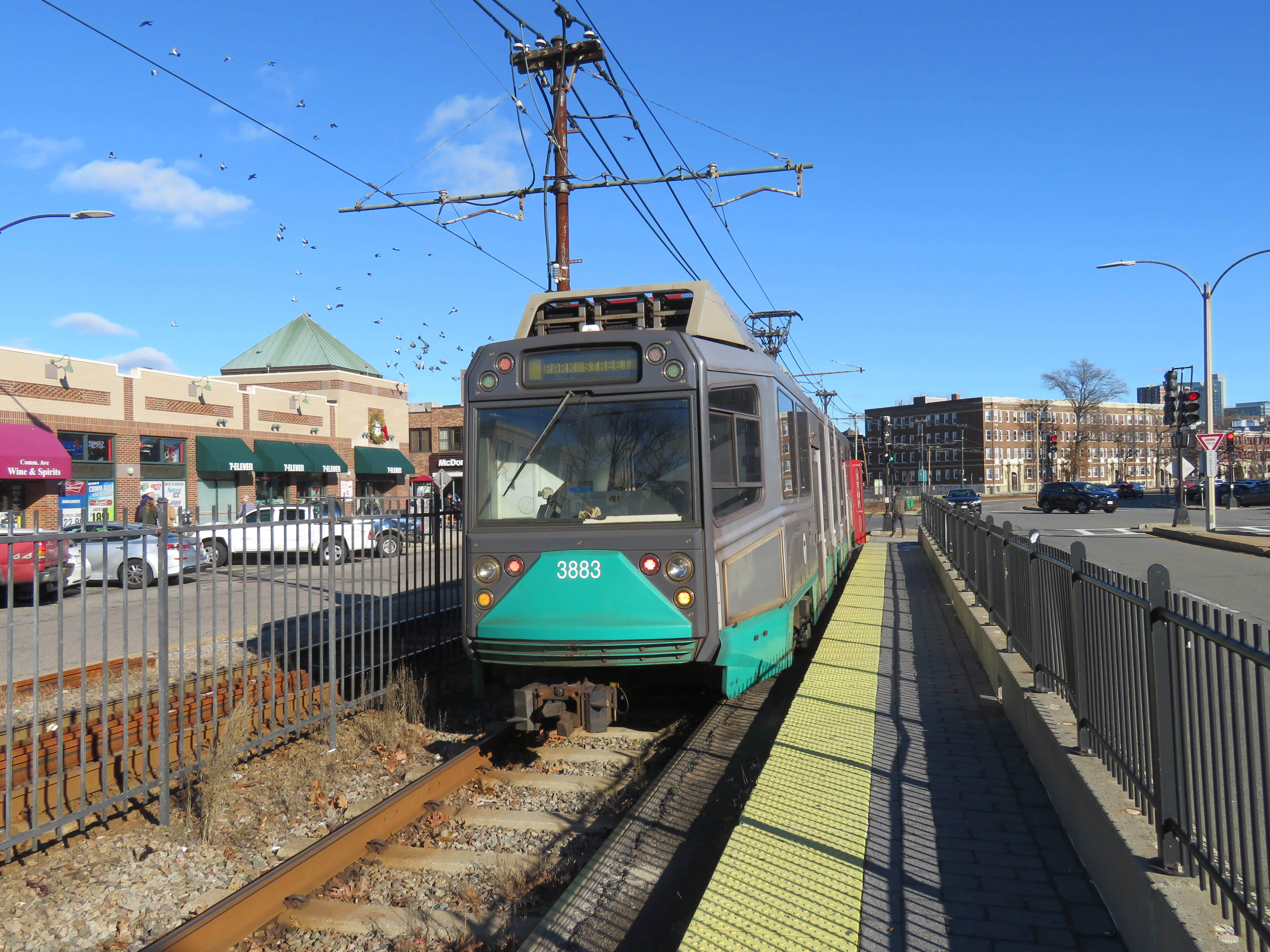 Rear view of an inbound train at Harvard Avenue station in December 2018